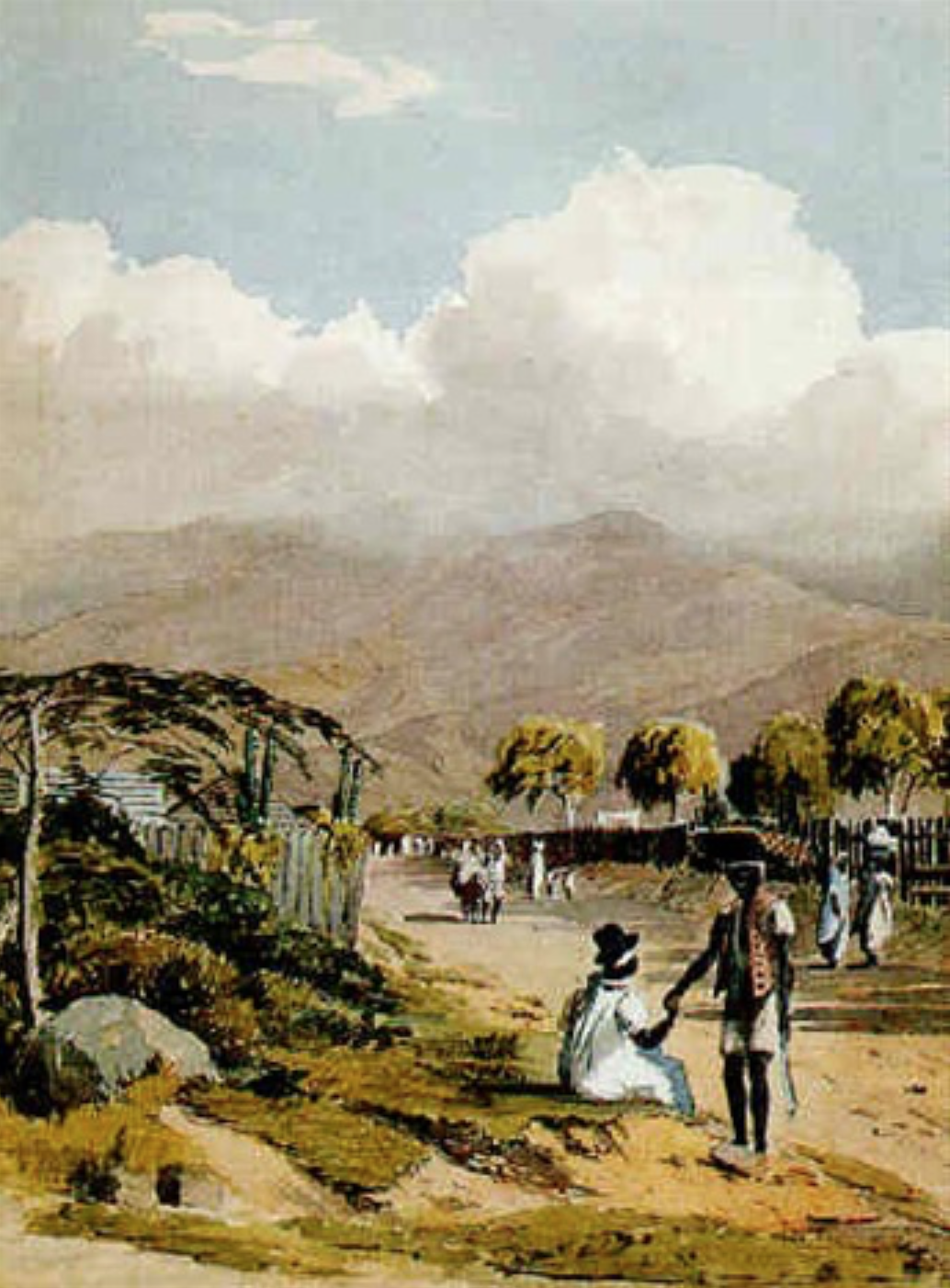 A watercolour and pencil made by Emeric Essex Vidal (1791-1861) while his squadron was stationed in the West Indies.